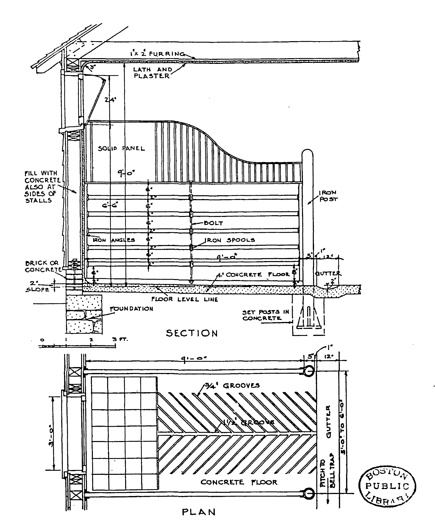 Detail of the "Burnett" Stall at Castle Hill, Ipswich, Massachusetts.